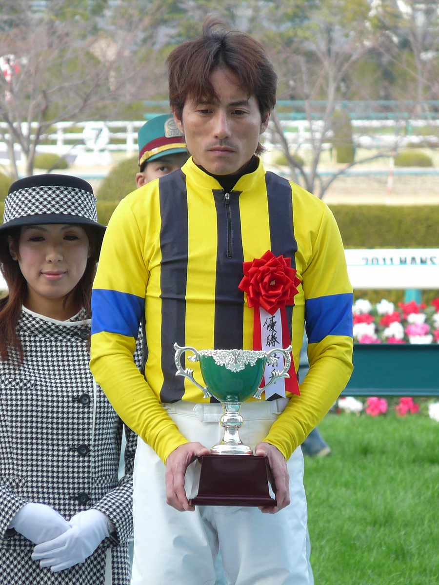 Yutaka-Yoshida(Jockey)20110227